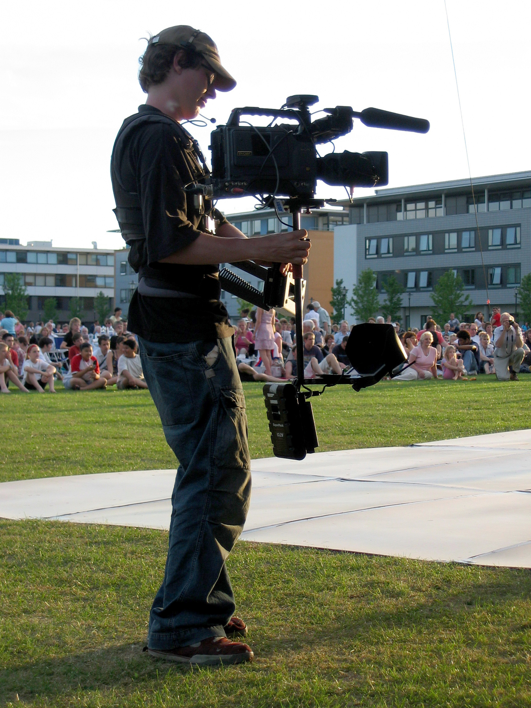 This photograph shows a man operating a steadicam.